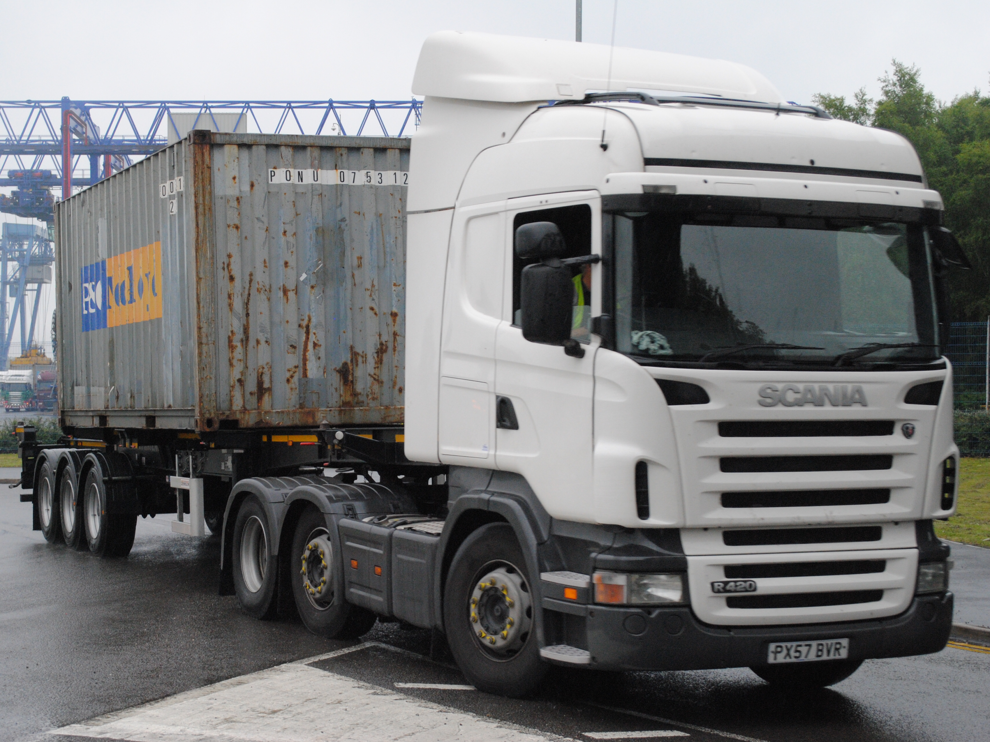 Scania R420 (ex Eddie Stobart H5353 Suzanne Lesley). seen here in Widnes